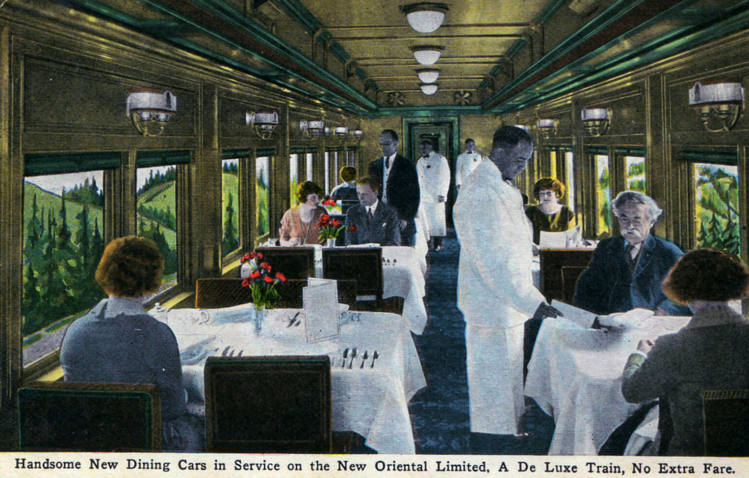 Postcard photo of the dining car of the "new" Oriental Limited. The train began its route in 1906 and received a new all steel trainset in 1924. It was at this time Great Northern promoted it as "the new Oriental Limited"; by 1929, it was downgraded from a deluxe to a secondary train.